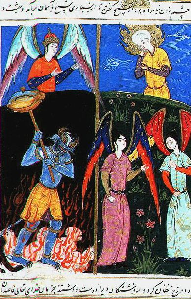 An imagining of Idris visiting Heaven and Hell from an illuminated manuscript version of Stories of the Prophets.